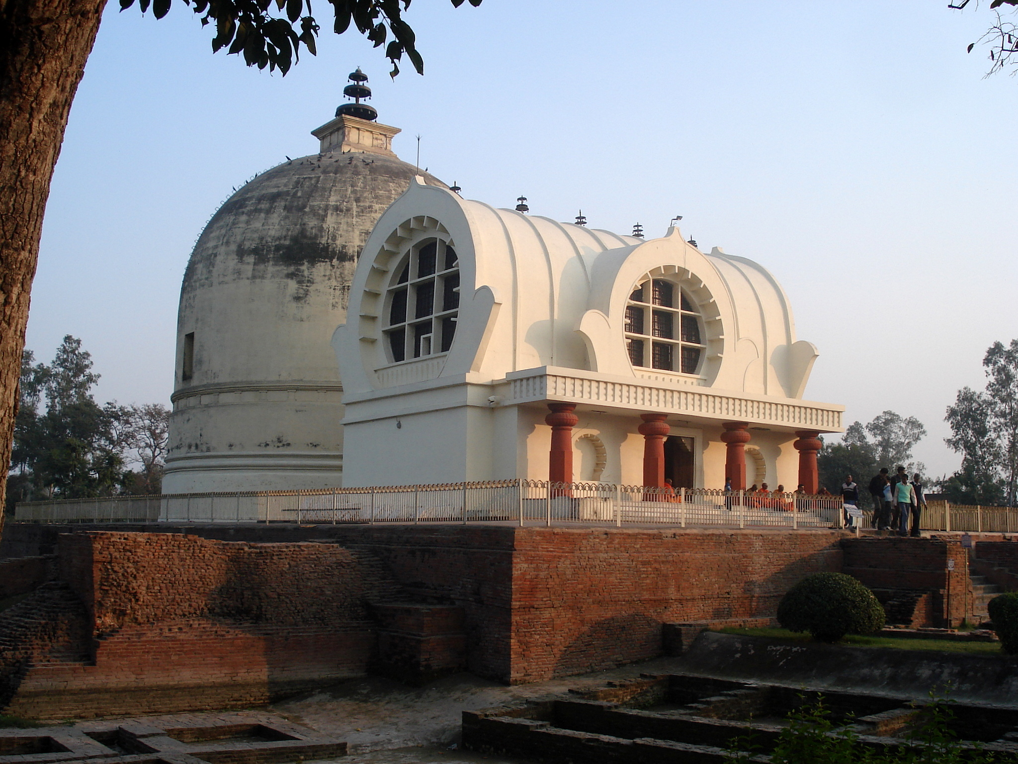 The Parinirvana Temple with the Parinirvana Stupa, in Kushinara, Uttar Pradesh, India. This is the place where the Buddha attained Parinirvana (death of a Buddha).